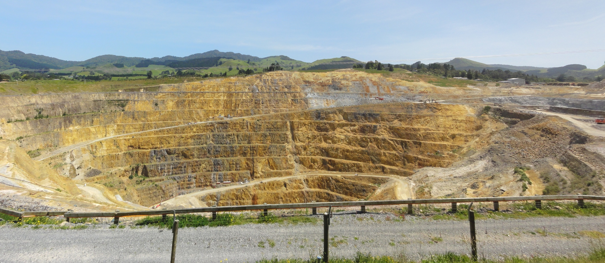 Panorama of Martha mine as viewed from the south east side. Waihi, New Zealand